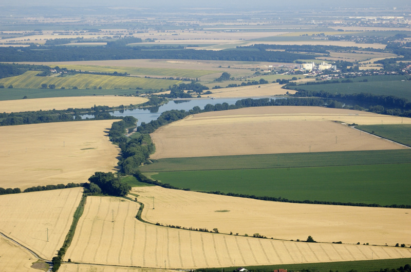 Reservoir Boleráz from Havrania skala